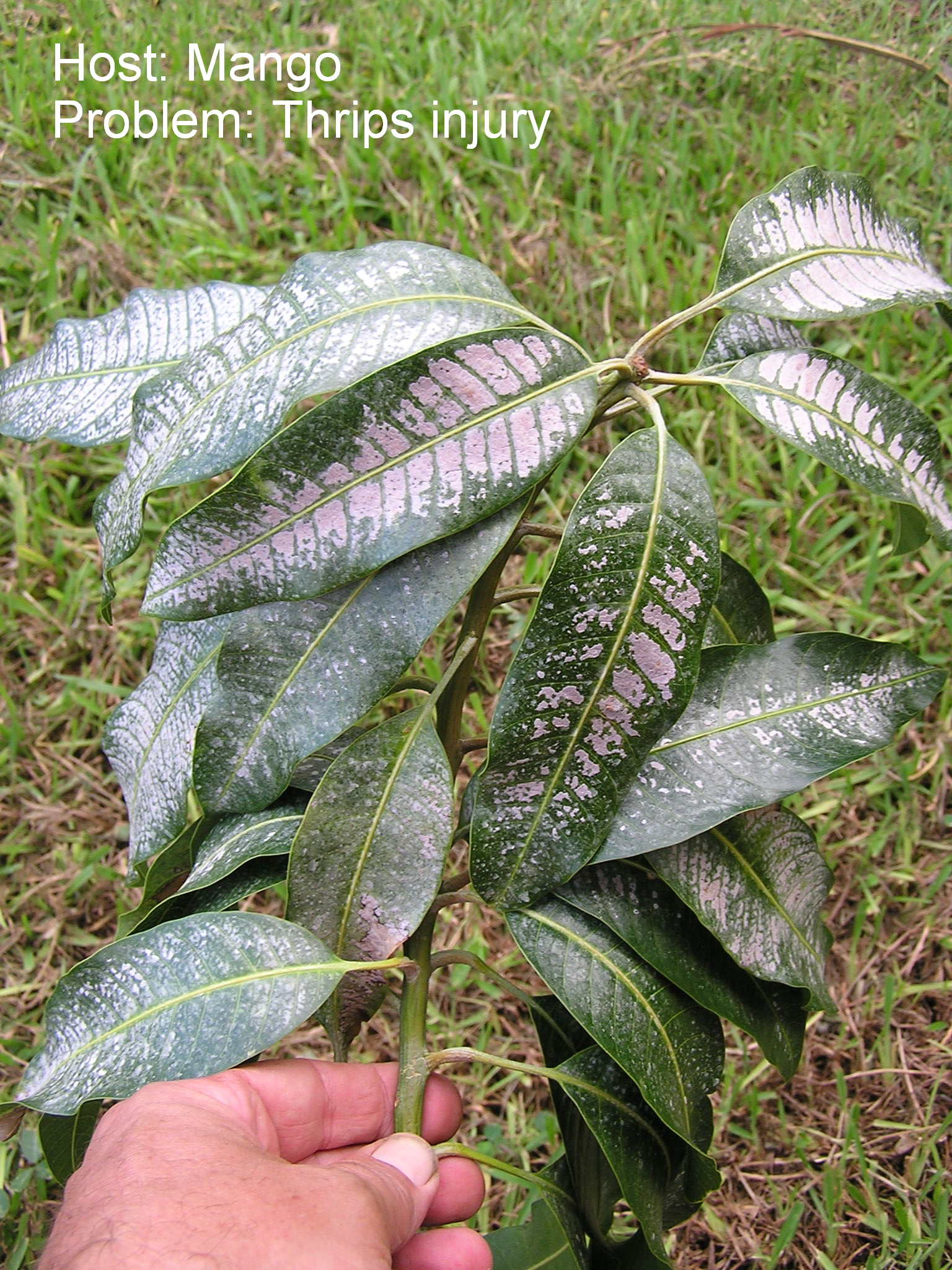 Redbanded thrips (Selenothrips rubrocinctus) feeding injury to mango leaves (Mangifera indica).